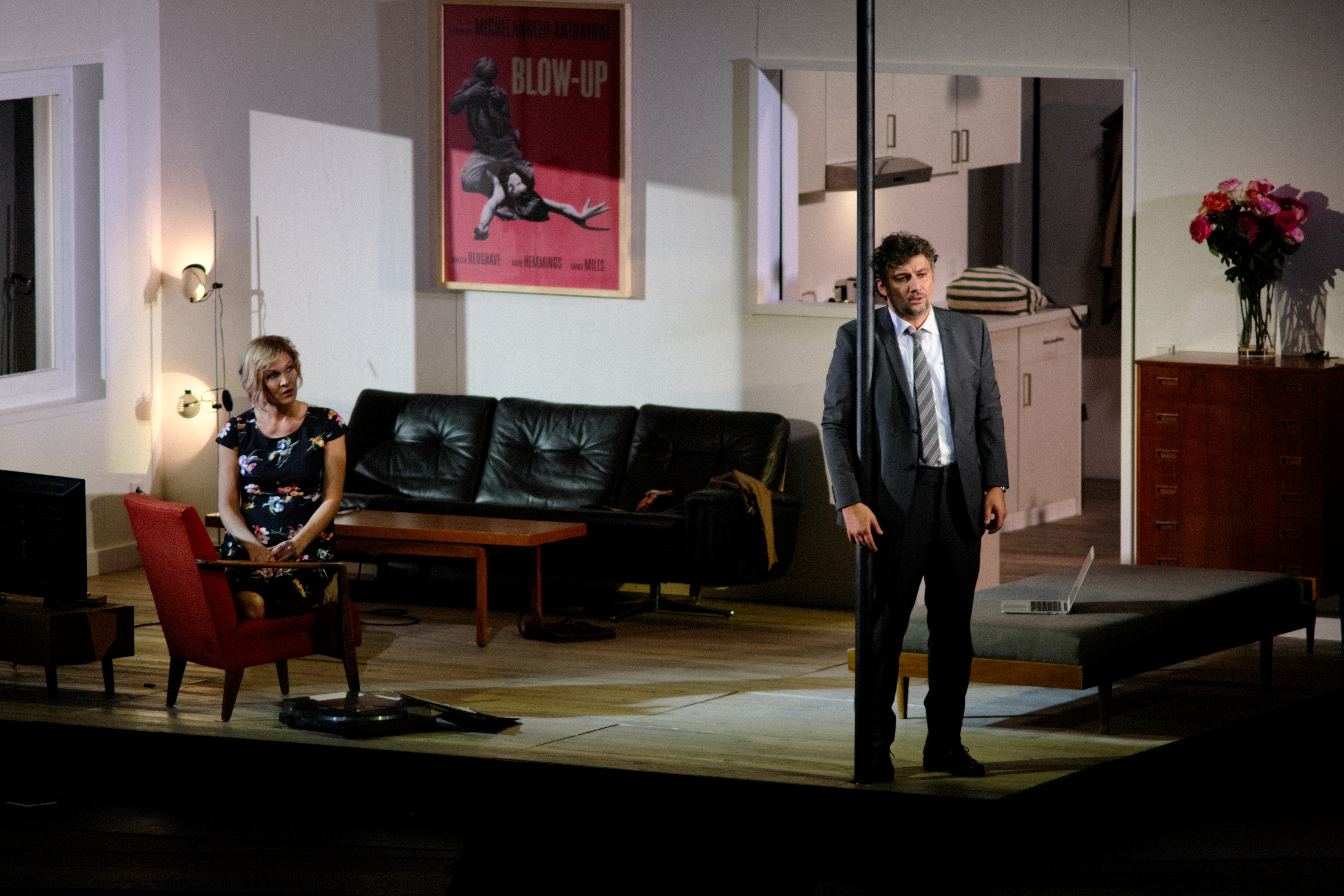 Marlis Petersen and Jonas Kaufmann in an opera production of Erich Wolfgang Korngold's Die tote Stadt at the Bayerische Staatsoper in Munich on November 11, 2019.